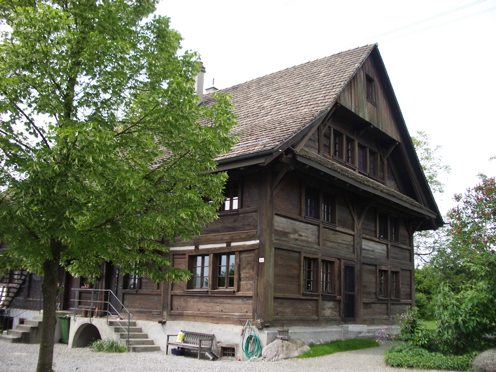 Ismatt Nr. 2, Hedingen ZH, Switzerland